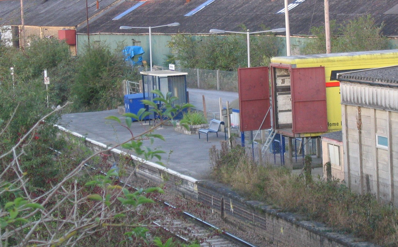 Melksham railway station.